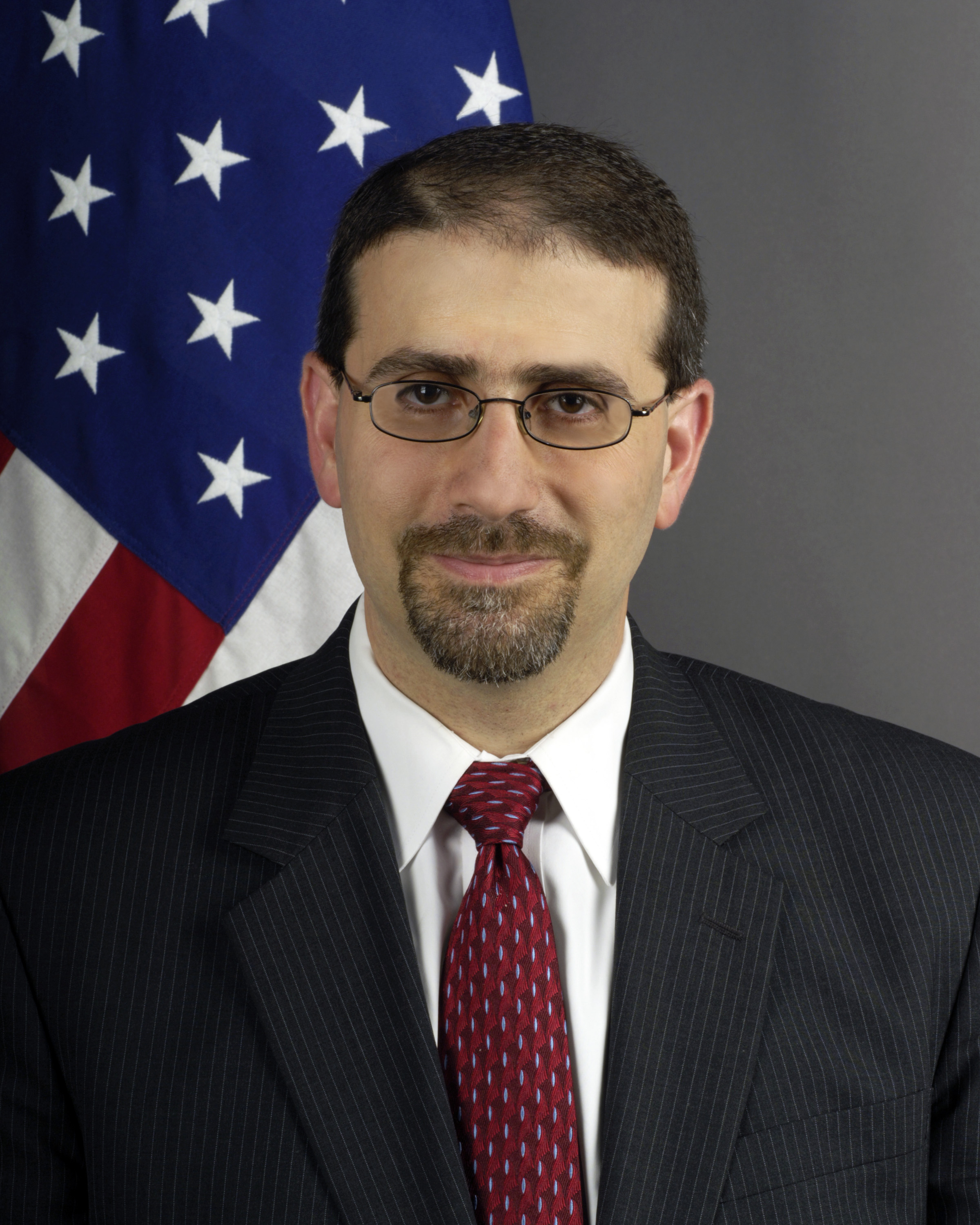 Daniel B. Shapiro, U.S. diplomat. As of 2011, U.S. ambassador to Israel.